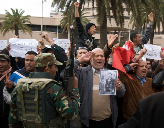 Demonstrators sing the national anthem and call for the dissolution of the ruling party outside their headquarters, central Tunis